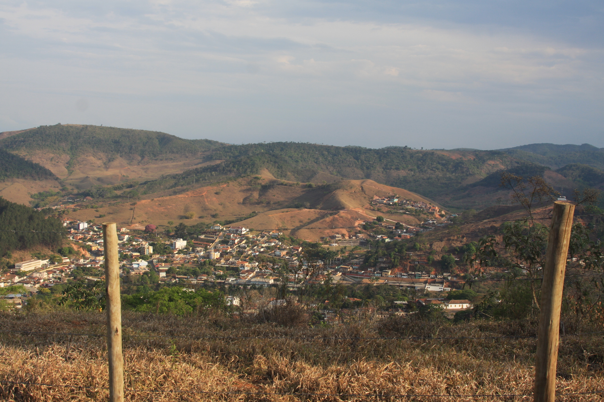 View of Nova Era, Minas Gerais, Brazil, between hills and mountains.